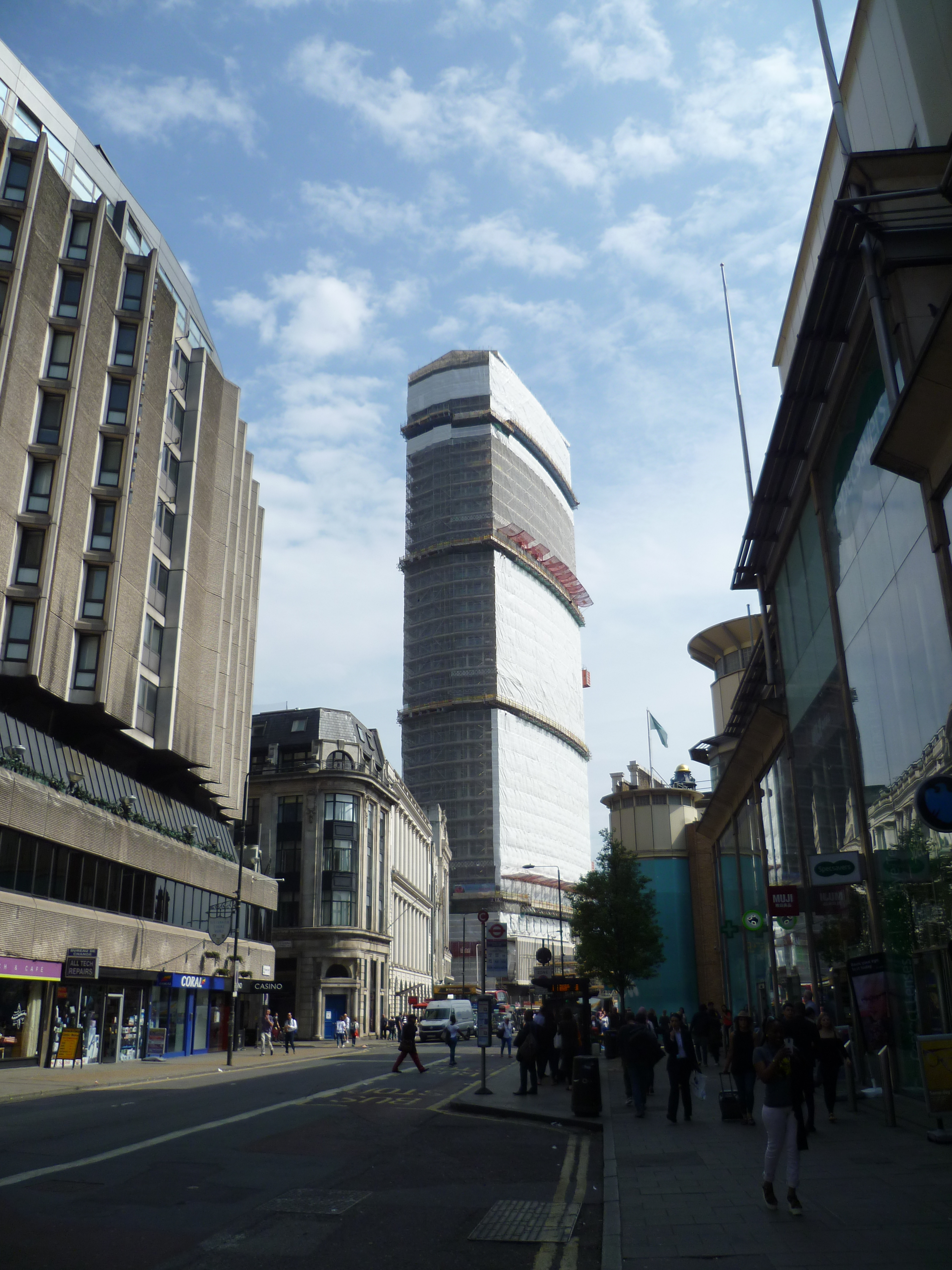 London